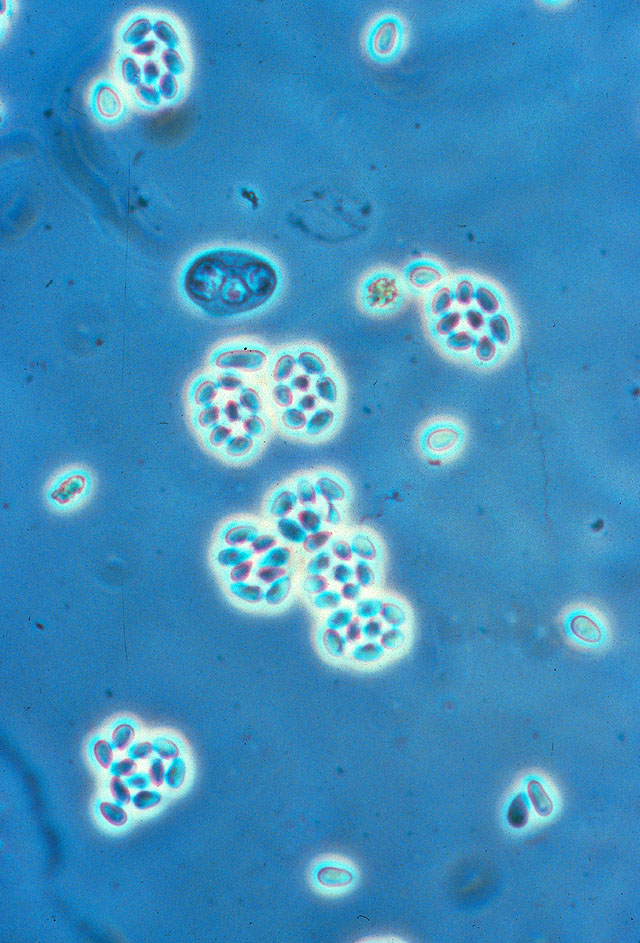 A microbial pathogen, Thelohania solenopsae infect all growth stages of the fire ant but is most debilitating to the fire ant queen. Magnified about 800x.